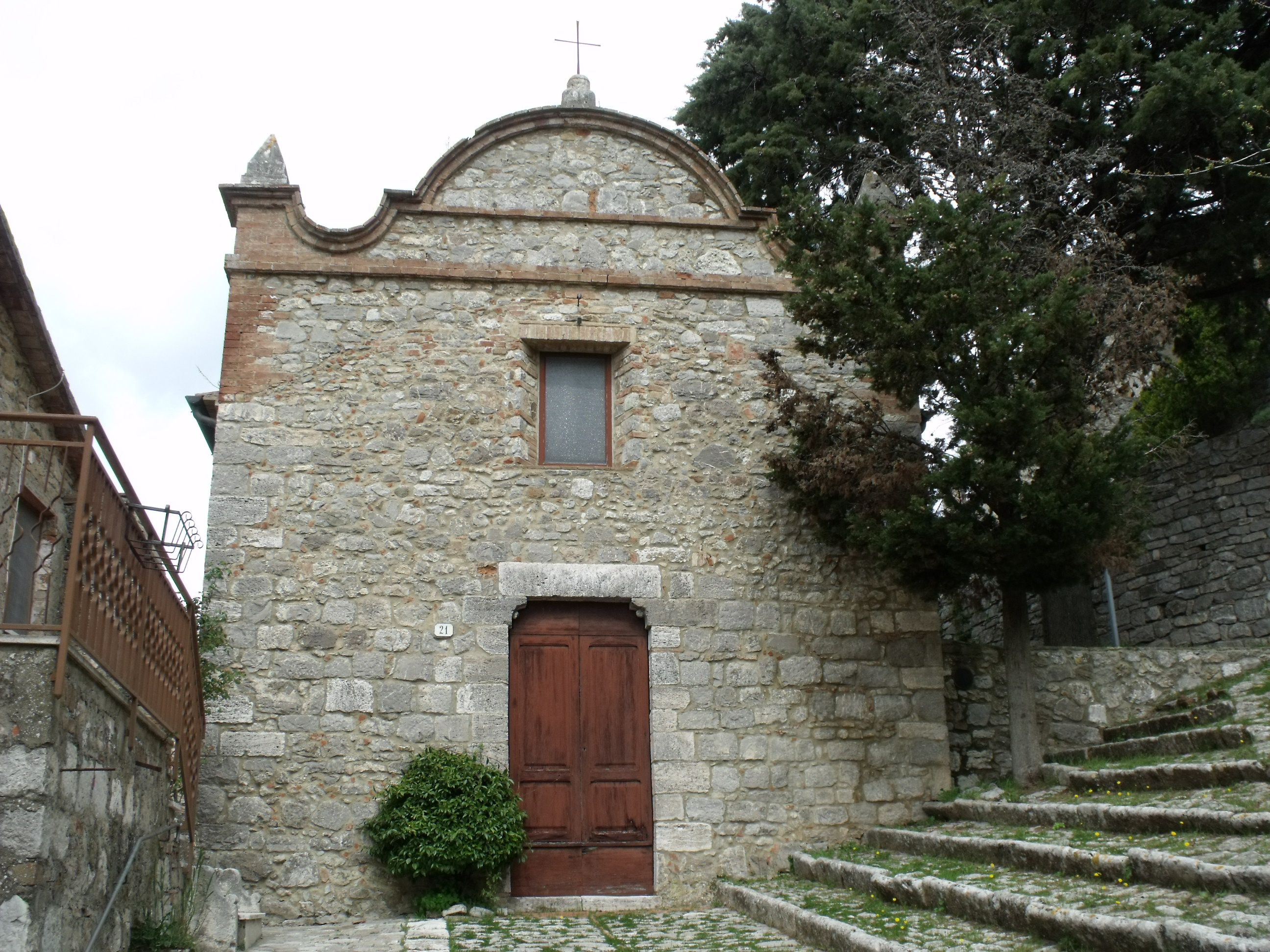 Church / Chiesa di San Sebastiano in Rocca d’Orcia, Castiglione d’Orcia, Val d’Orcia, Province of Siena, Tuscany, Italy